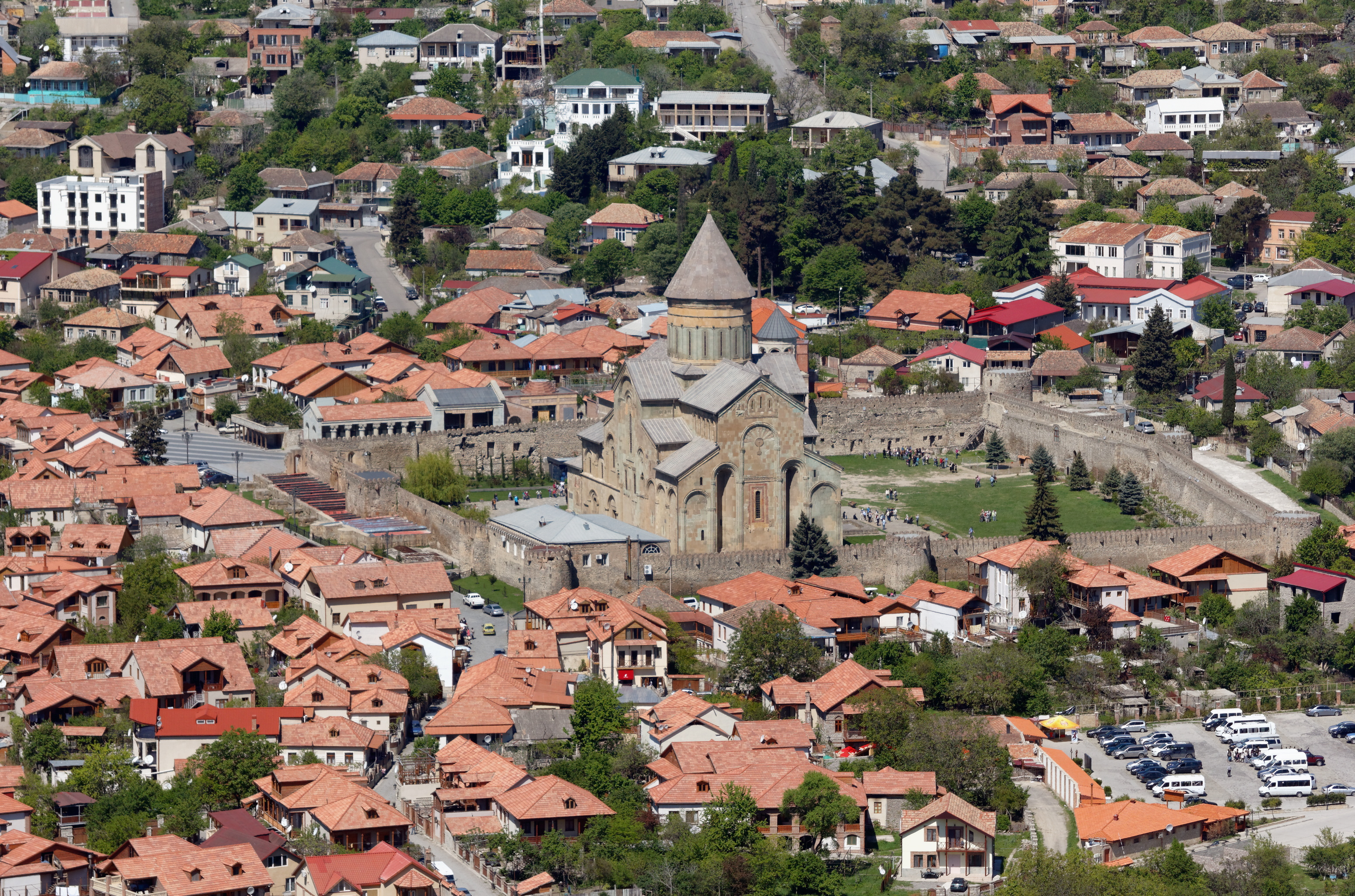 Georgia. Mtskheta. Svetitskhoveli Cathedral